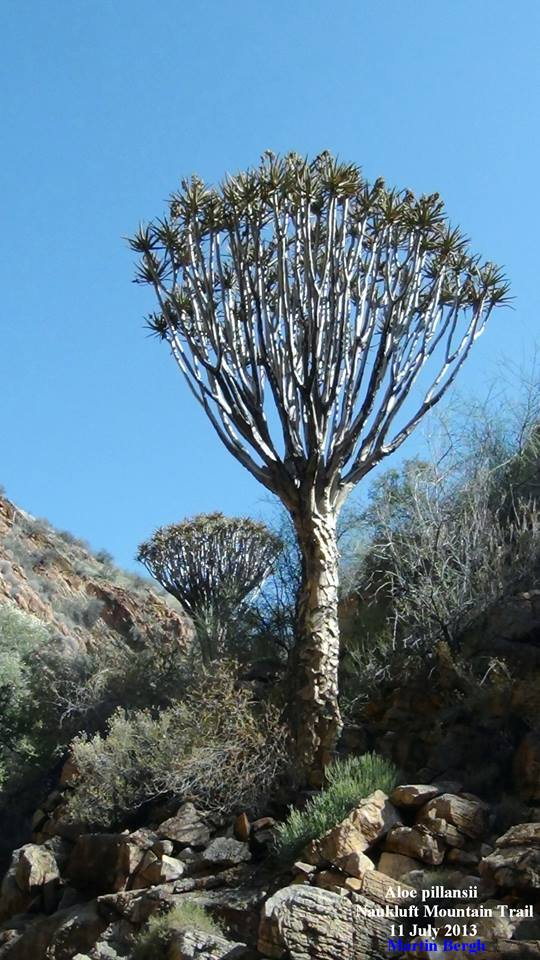 Aloidendron pillansii L.Guthrie - Naukluft Mountain Trail, Namibia